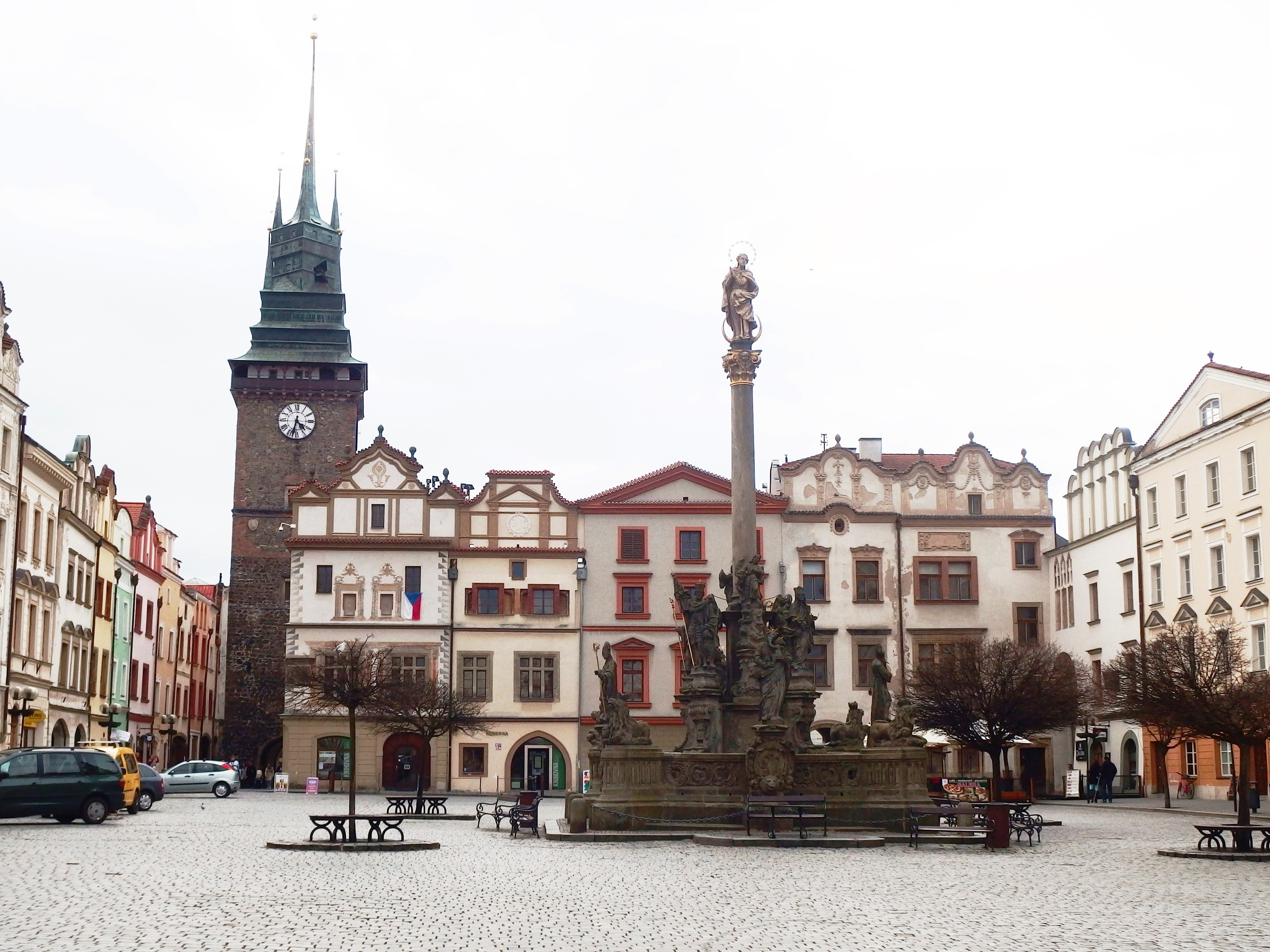 Pardubice, Czech Republic. Pernštýnské náměstí Square.